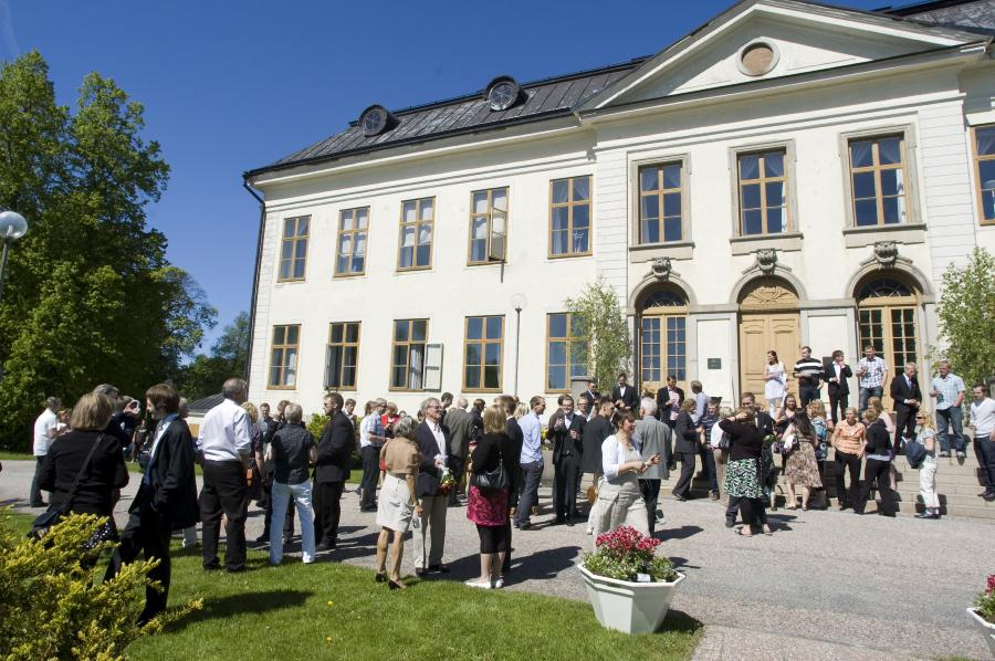 Graduation day on Campus Skinnskatteberg at the Swedish University of Agricultural Sciences. Photo by Jenny Svennås-Gillner